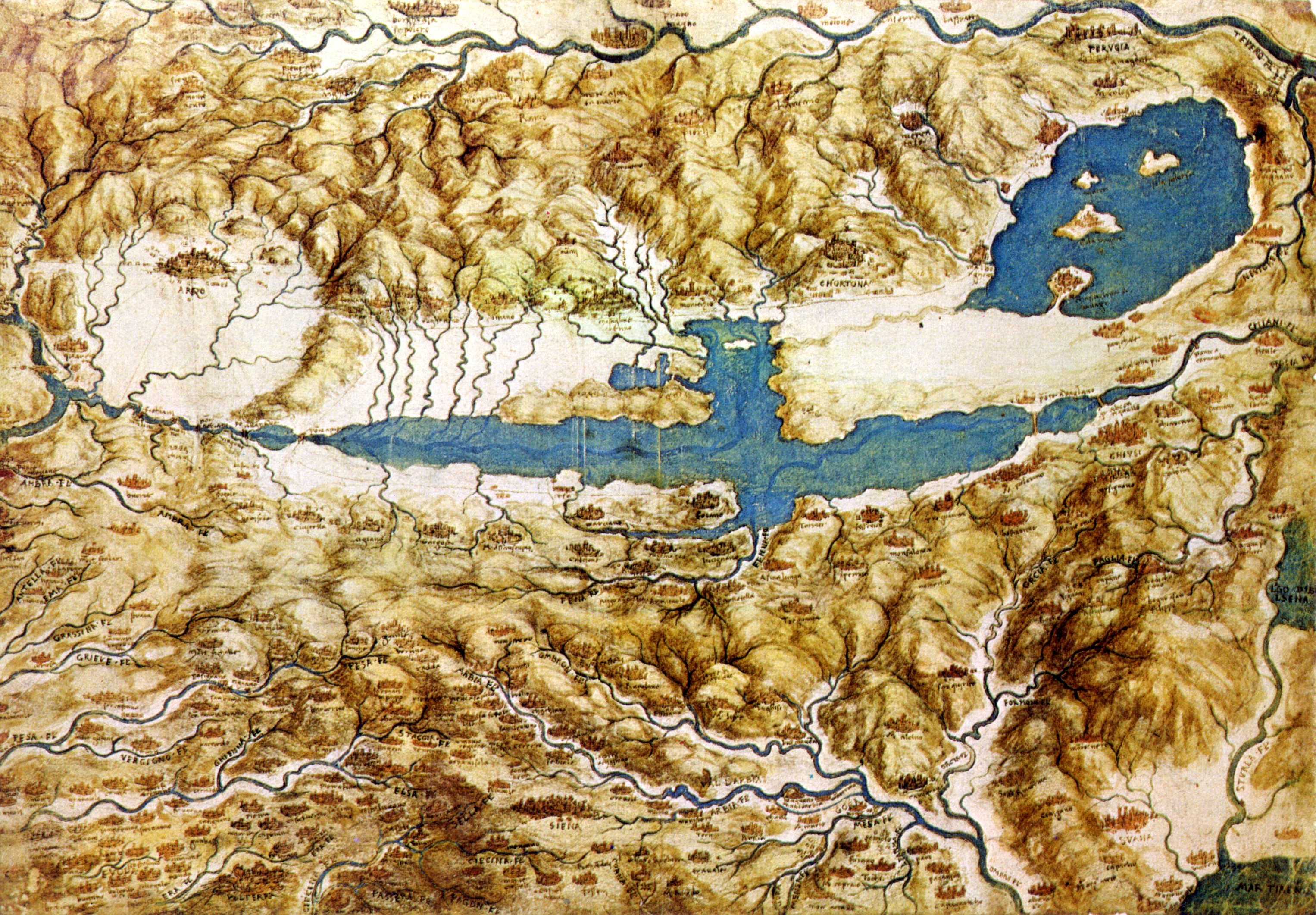 Topographic View of the Countryside around the Plain of Arezzo and the Val di Chiana. Charcoal or soft black chalk, reworked with pen and dark brown ink, brush and brown wash; 208 x 283 mm (8 3/16 x 11 1/8 in.). Owned by Her Majesty Queen Elizabeth II, Royal Library, Windsor.